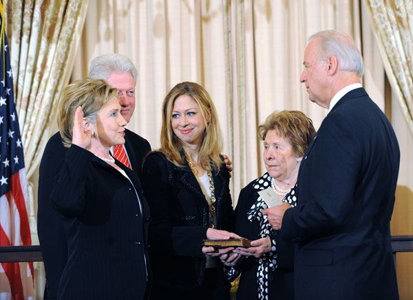 Vice President Biden swears in Secretary of State Hillary Rodham Clinton. Joining Secretary Clinton is her husband, former President Bill Clinton, their daughter Chelsea Clinton, and Secretary Clinton's mother Dorothy Rodham.